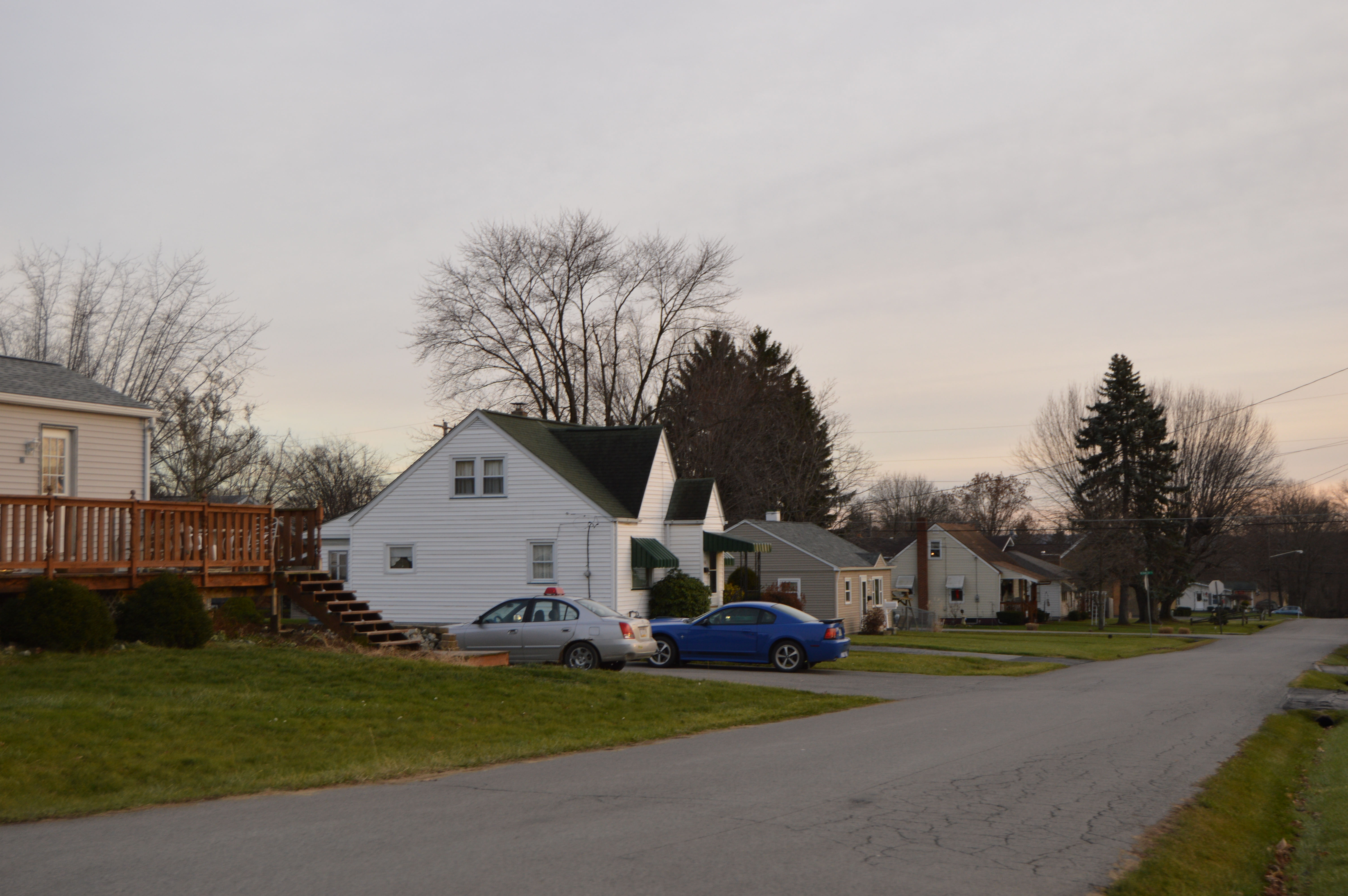 Houses on the eastern side of Beaver Street, seen looking southward from the Worthington Avenue intersection, in New Castle Northwest, Pennsylvania, United States.